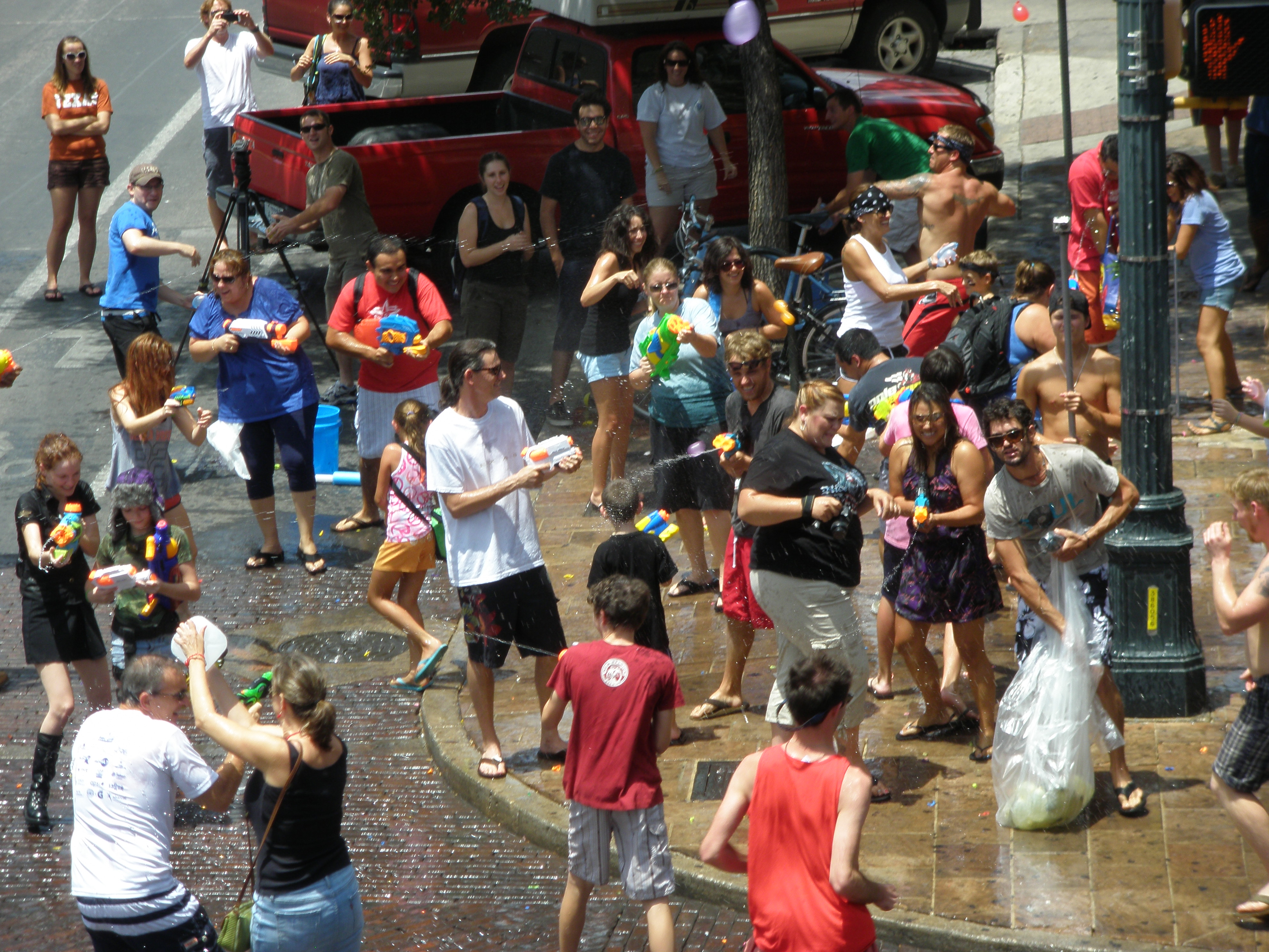 Flash mob : water fight, July 2, 2011, at the corner of 6th and Trinity Streets in Austin, Texas.